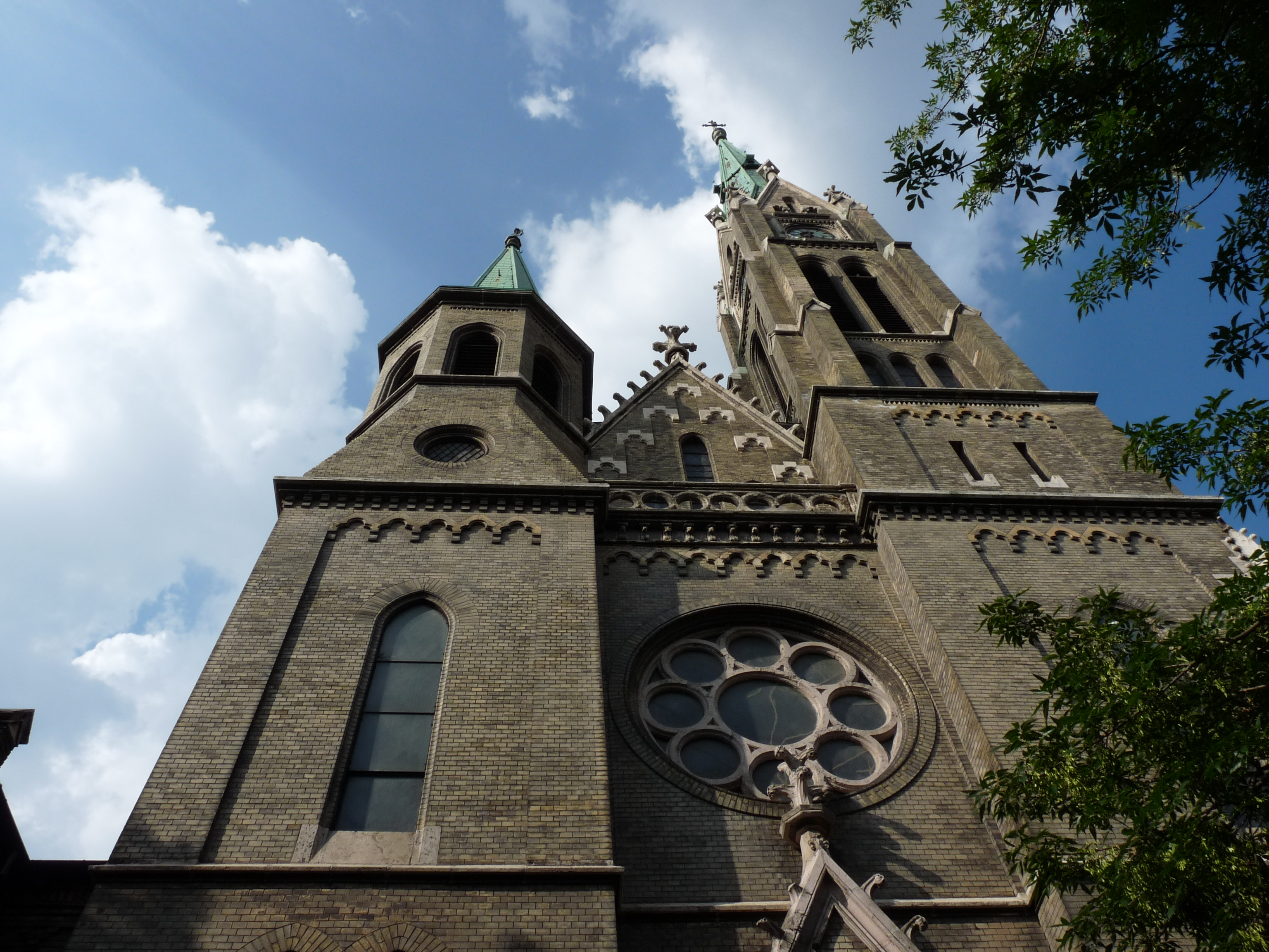 Upper part of the facade of the Carmelite church in Budapest